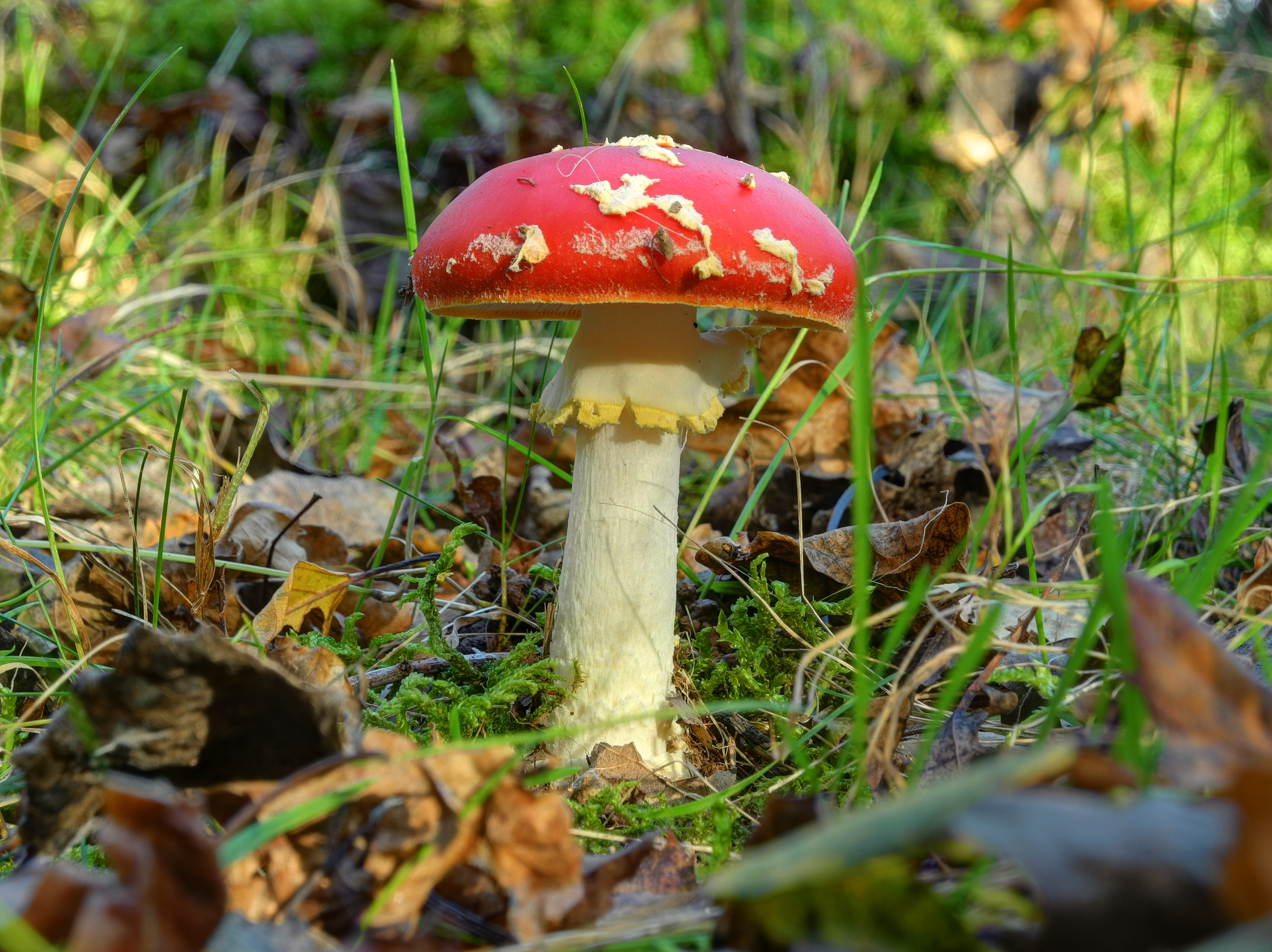 Amanite tue-mouches (Amanita muscaria) (HDR).